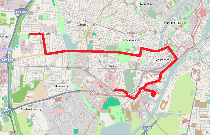 Map of the Copenhagen bus line 7A between Rødovrehallen and Ny Ellebjerg Station as of 16 May 2020. This map may be incomplete, and may contain errors. Don't rely solely on it for navigation.